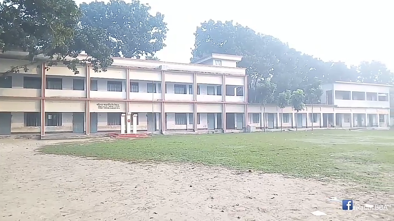 Its my primary school. is stand on Aminpur Thana, pabna.